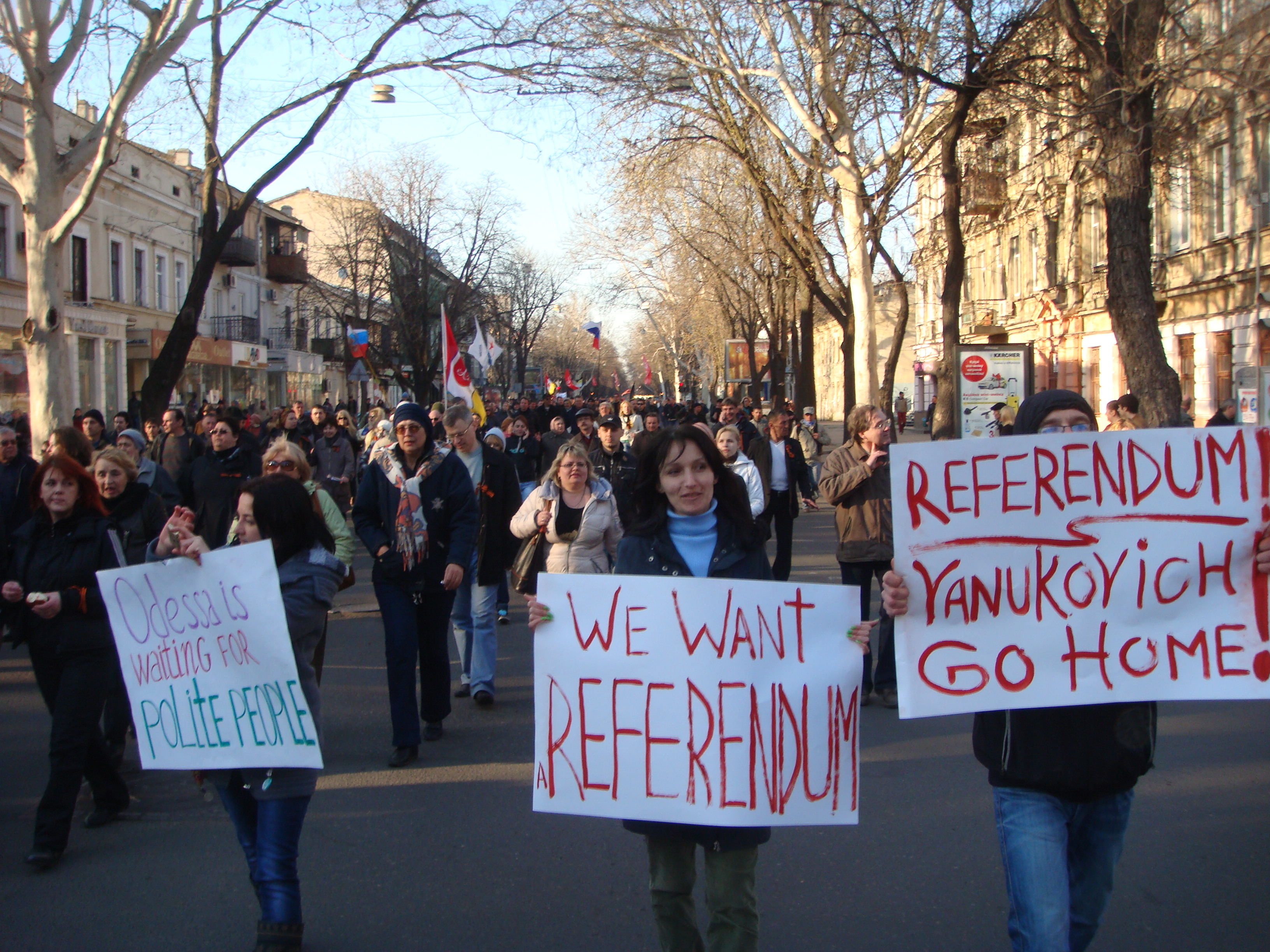 Protesters in Odessa on 2014-03-30 participating in demonstration against political repressions and for federalization of Ukraine.